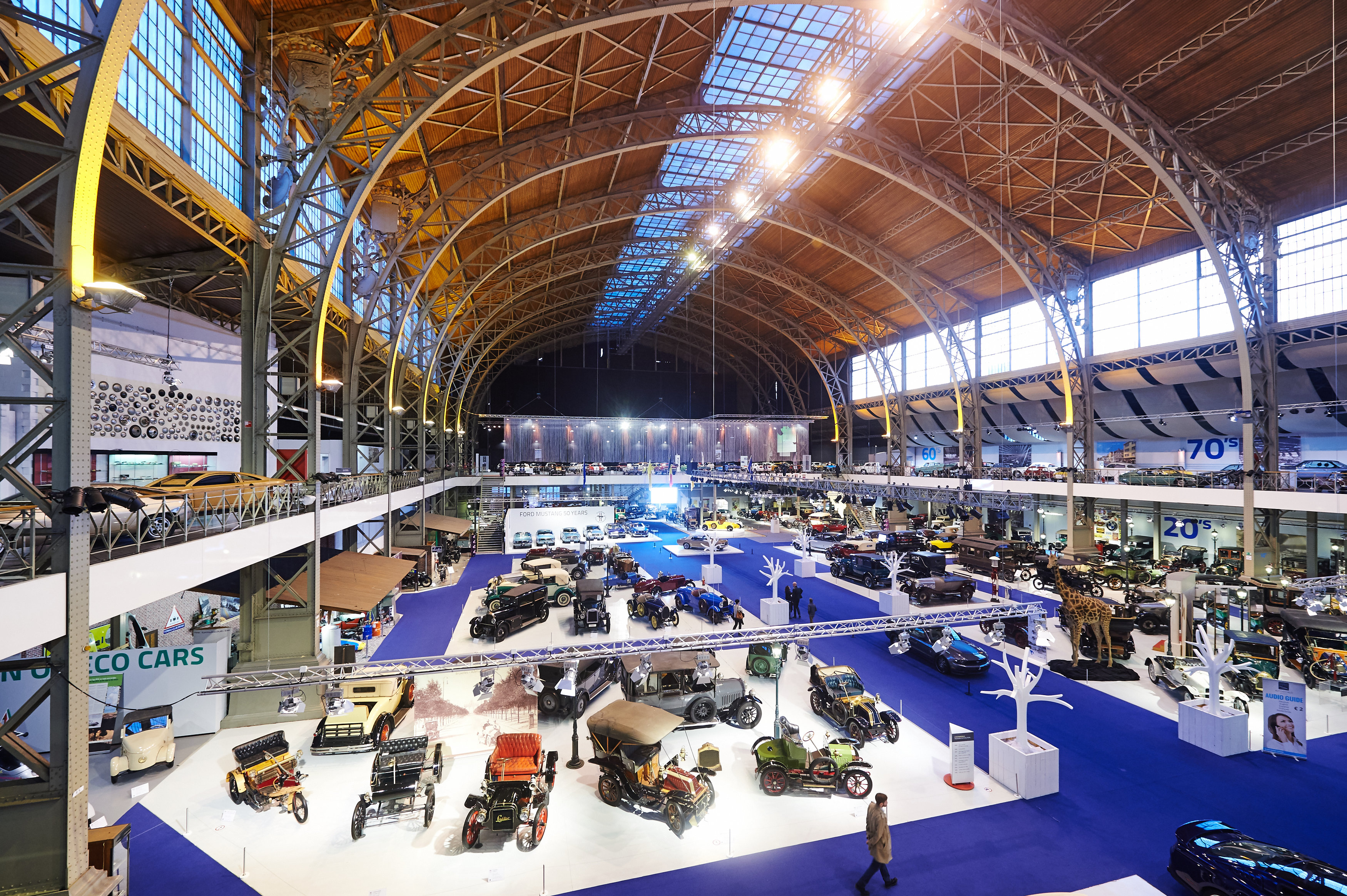 The blue boulevard is the main aisle